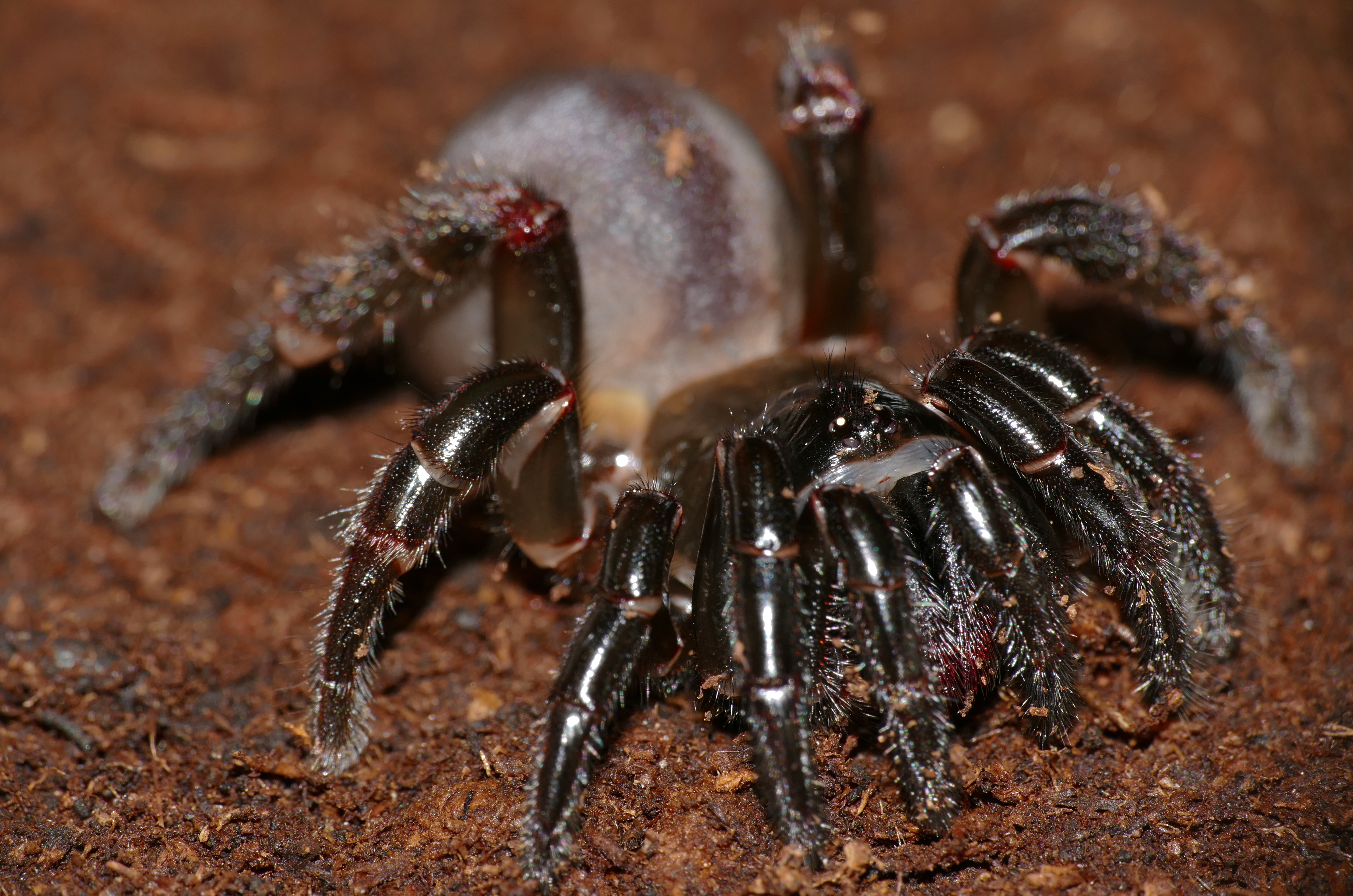 Corse, FRANCE (Captive specimen)